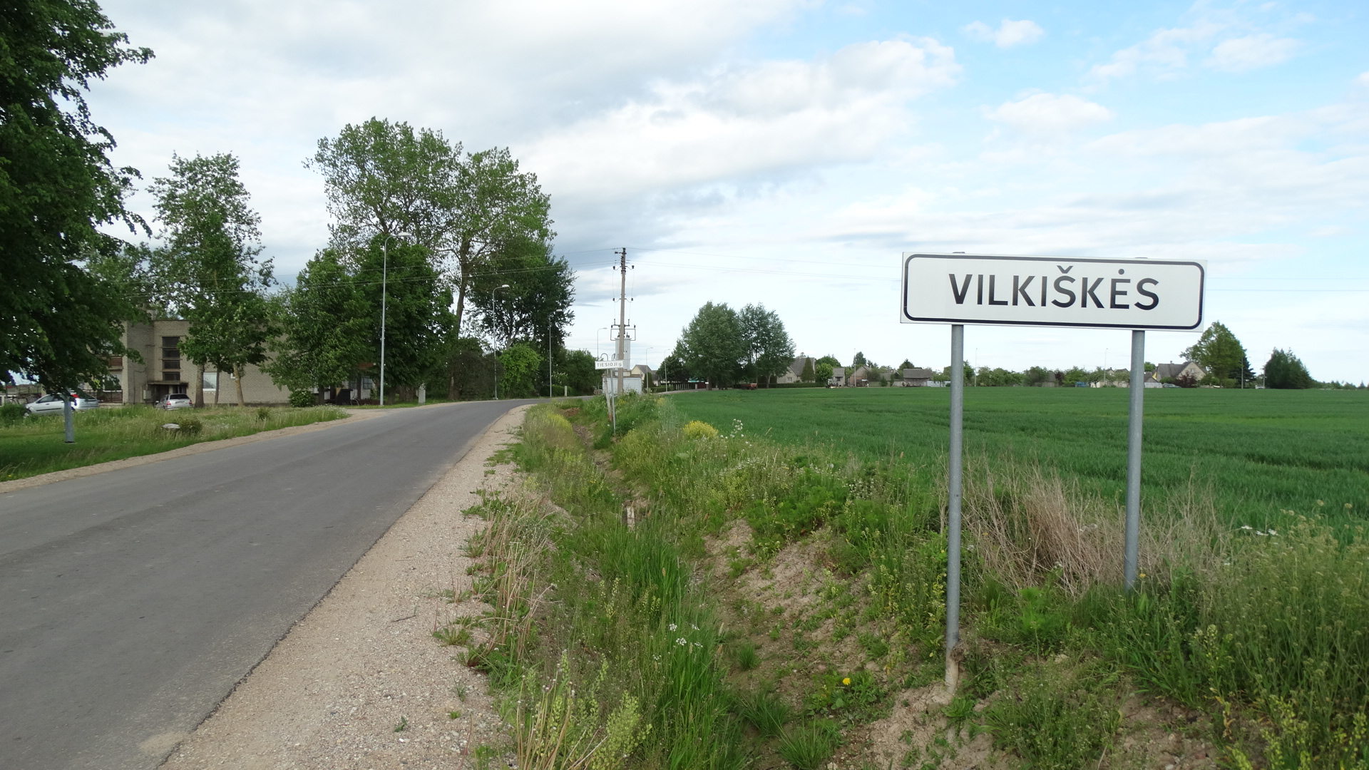 Vilkiškės, Kaišiadorys District, Lithuania